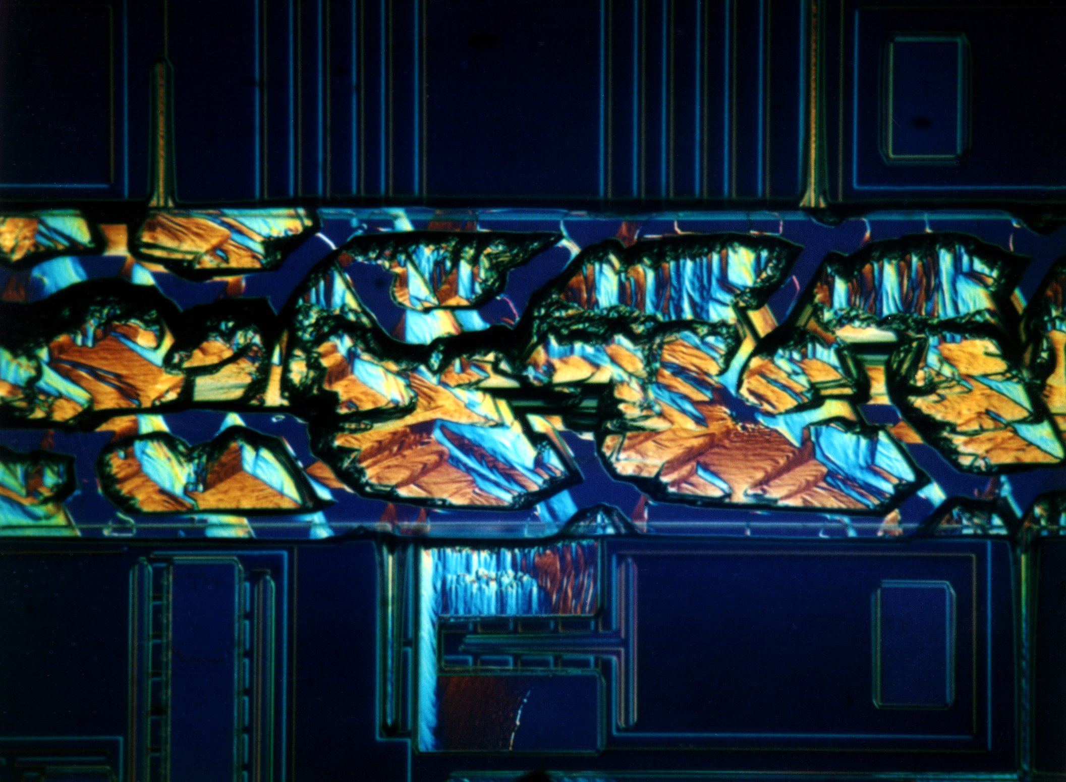 The subject of this image is a silicon integrated circuit wafer in the region between two circuit die. The oxide should have been fully etched in the horizontal area at the center of the image, but in fact was not - because of a defect in processing. The irregular remaining oxide is highlighted by the Nomarski Differential Interference Contrast microscopy (DIC).